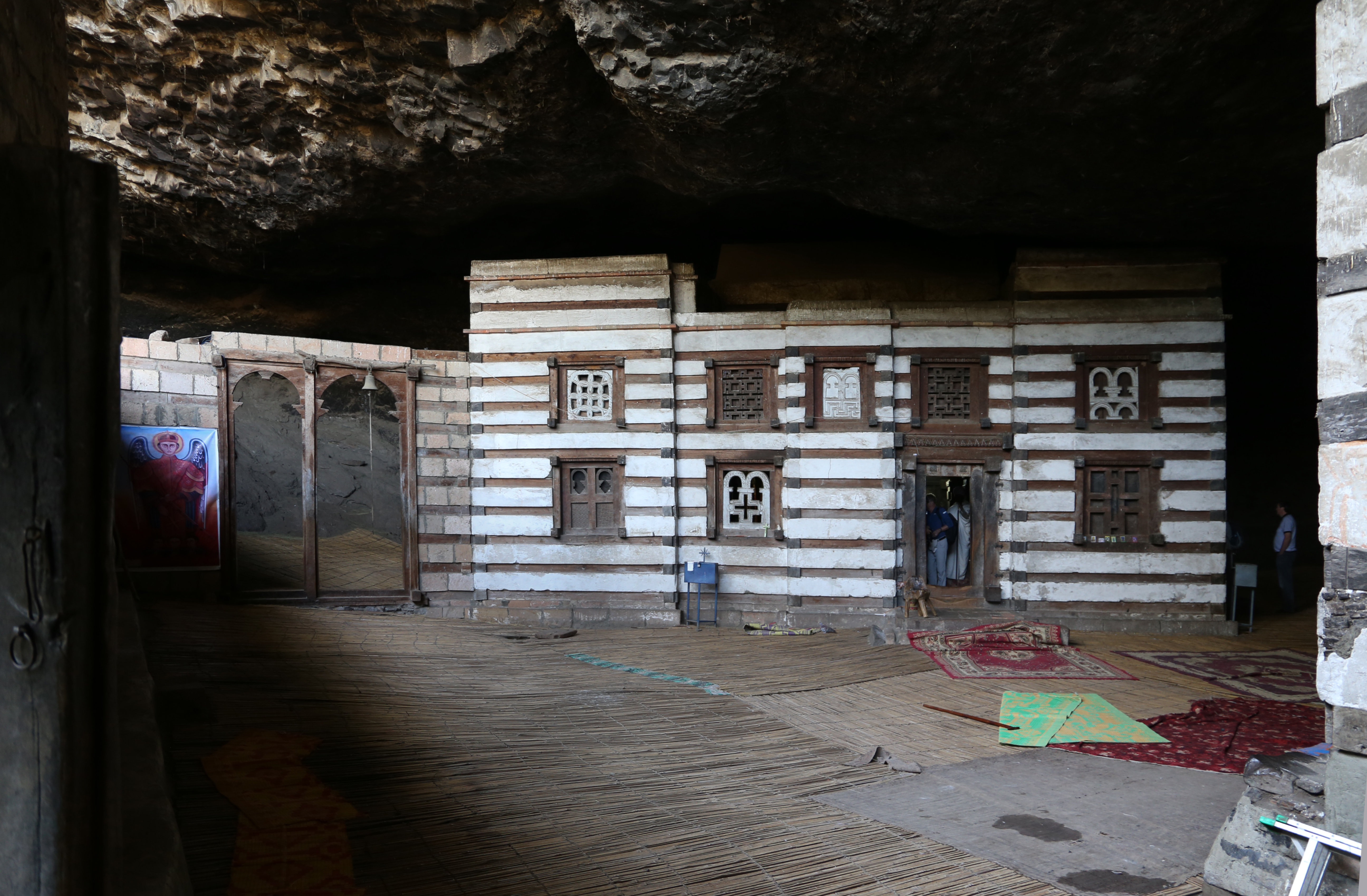 Yemrehanna Krestos